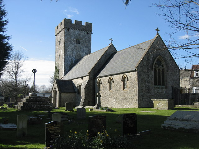 St.Cattwg's Church, Llanmaes, Vale of Glamorgan. The parish church of Llanmaes is dedicated to St Cadoc (St Cattwg), and although the present building dates back to the 13th century it is of a much earlier Celtic foundation. The village of Llanmaes can be found north of the B4265, near Llantwit Major.